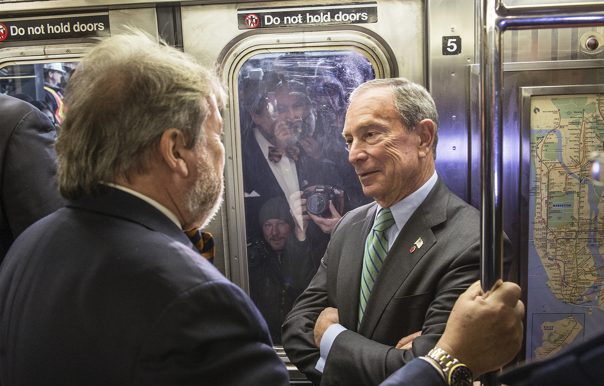 Mayor Michael R. Bloomberg joined MTA officials and other local leaders and took the first ride on the extension of the 7 Subway line, terminating at the new subway station located at 34th Street and Eleventh Avenue in Manhattan. Photo: MTA / Patrick Cashin Mayor and MTA Officials Ride 7 Line Extension